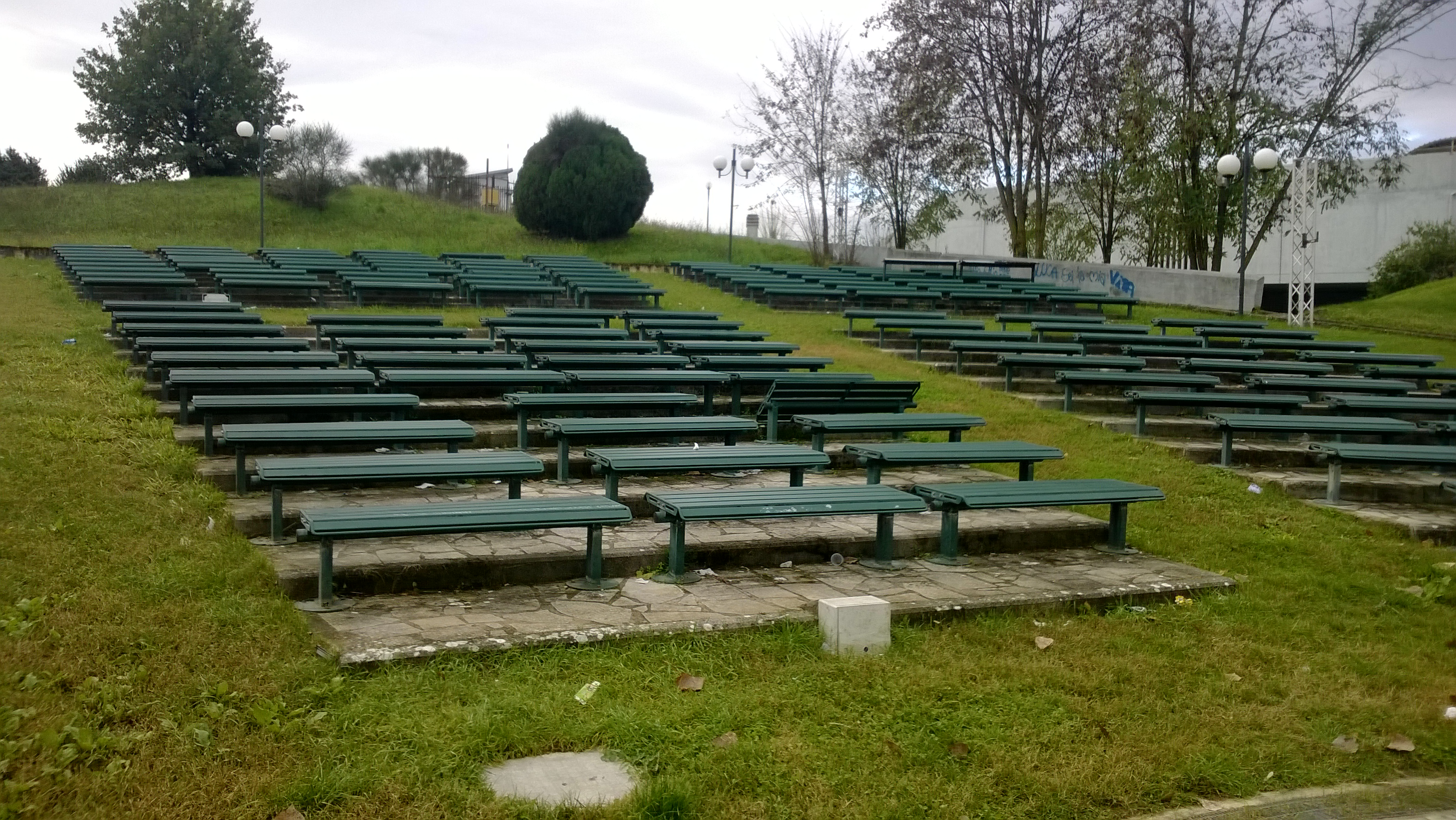 Vista di un'aula all'aperto nei pressi dell'Edificio Polifunzionale